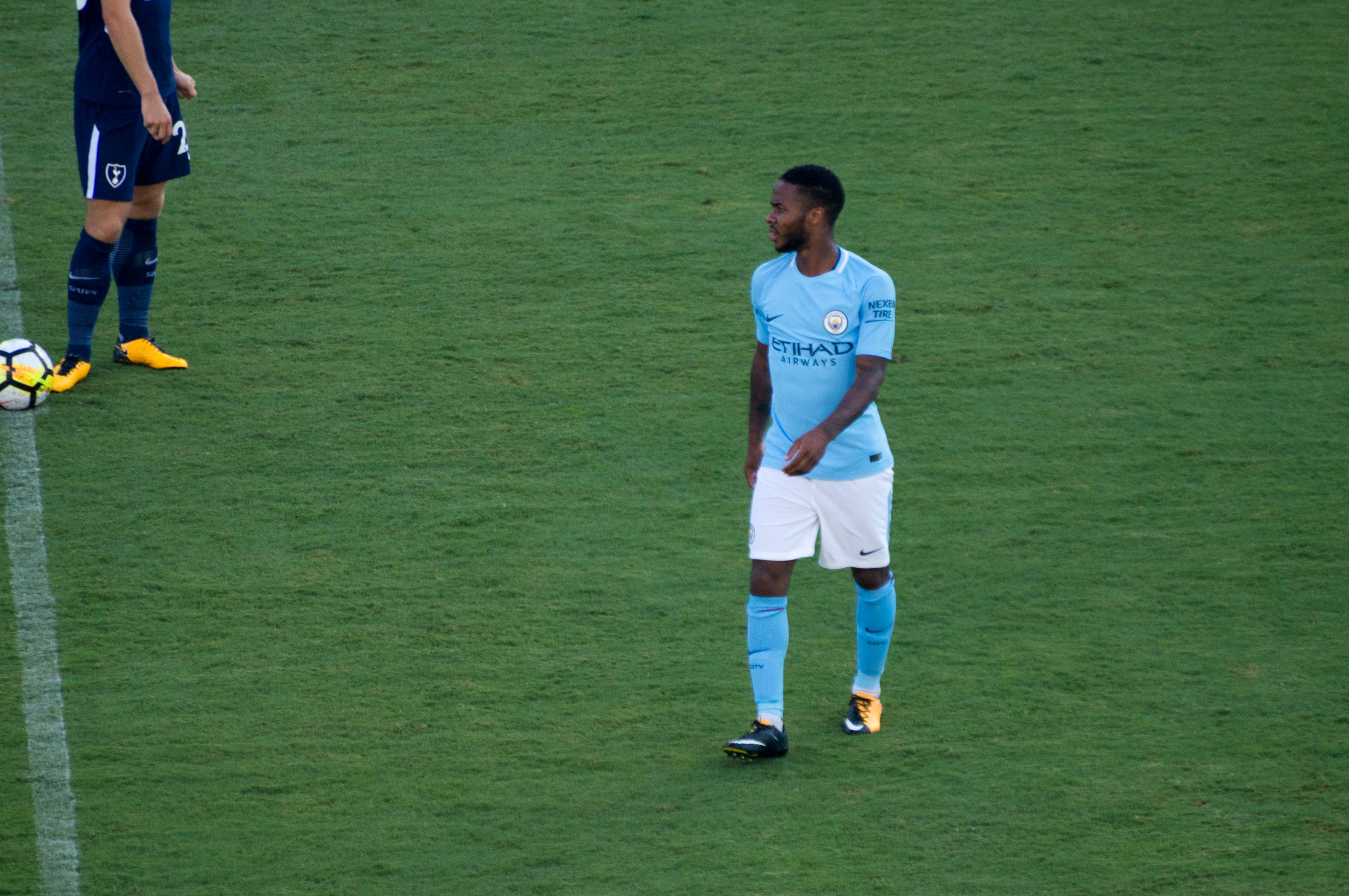 Manchester City vs Tottenham Hotspur at Nissan Stadium in Nashville, TN